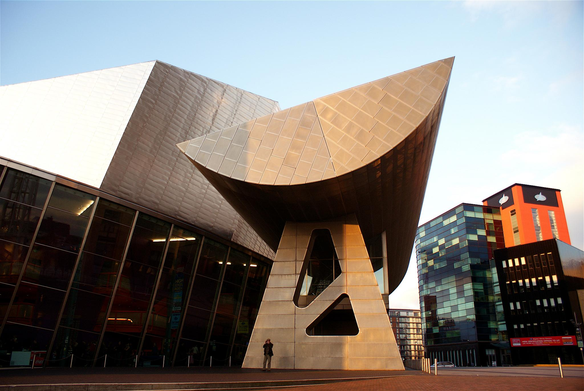 The Lowry, Salford, Greater Manchester, England.